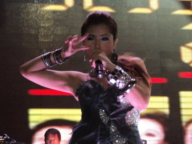 Nina performing on the "ASAP Sessionistas 20.11" pre-Valentine concert at the Araneta Coliseum on February 5, 2011.